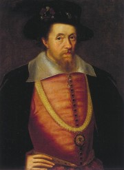 King James I of England and VI of Scotland, after John De Critz the Elder (died 1647).